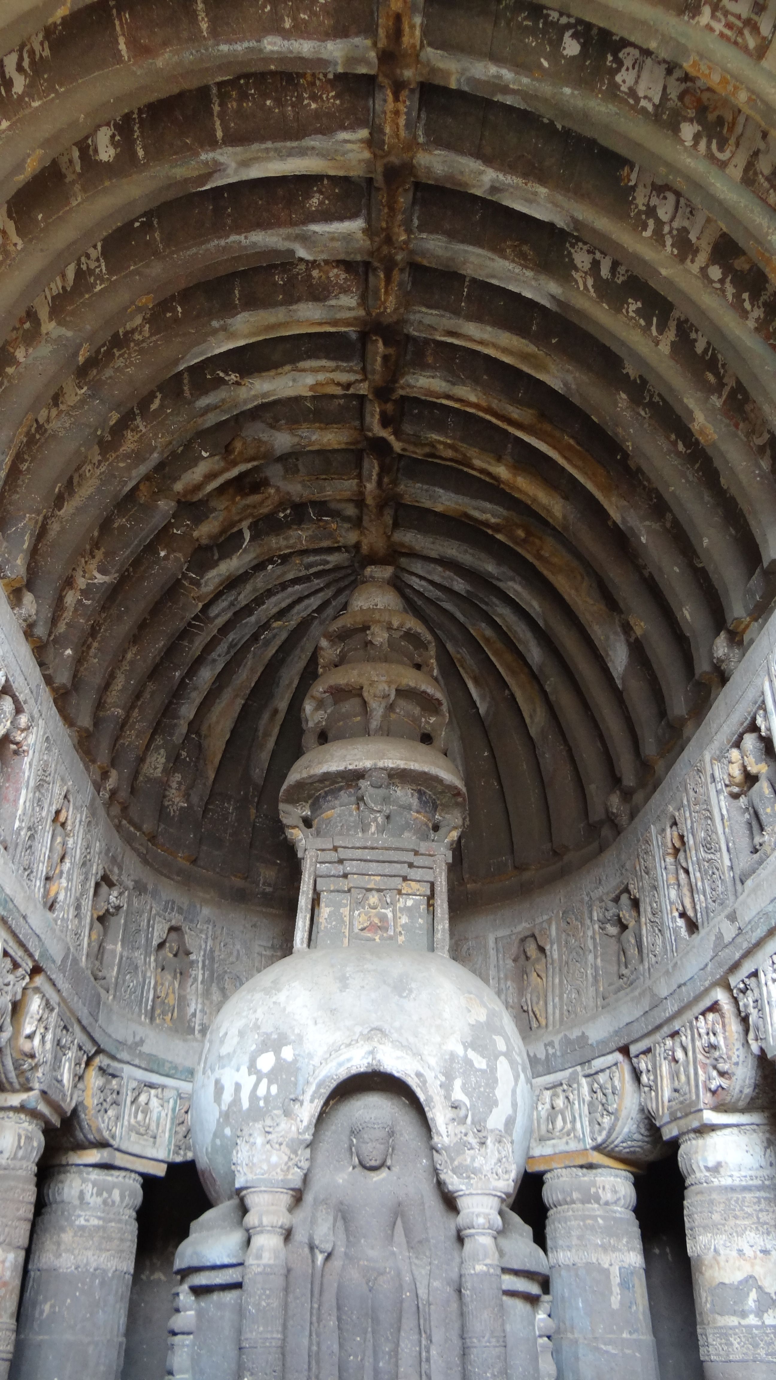 Ajantha (2)